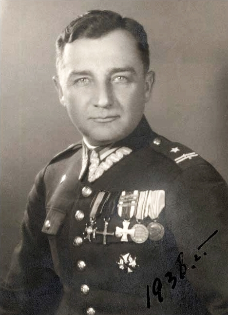 Portrait of Henryk Dobrzański